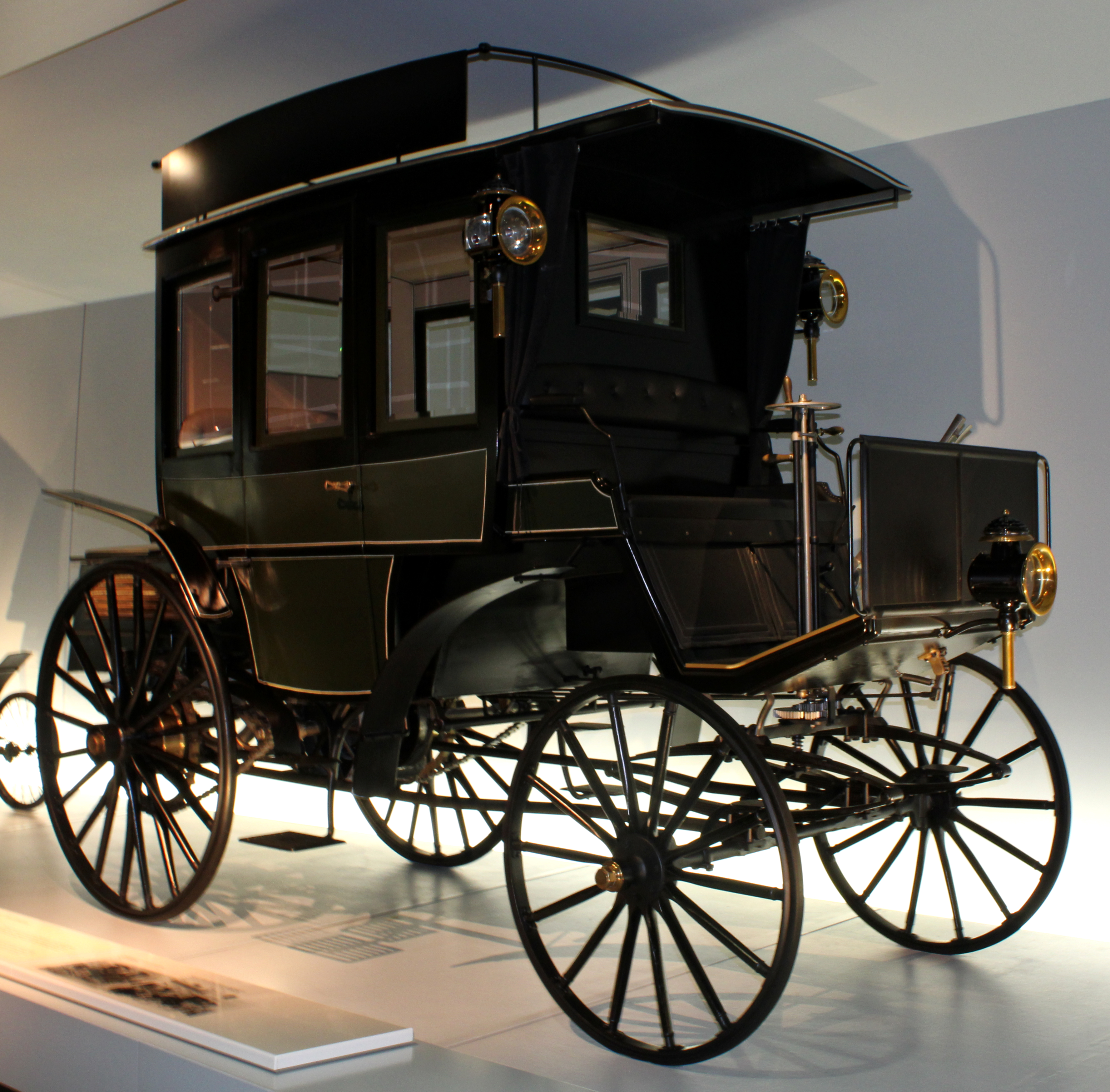 Benz Omnibus replica in the Mercedes-Benz Museum in December 2018